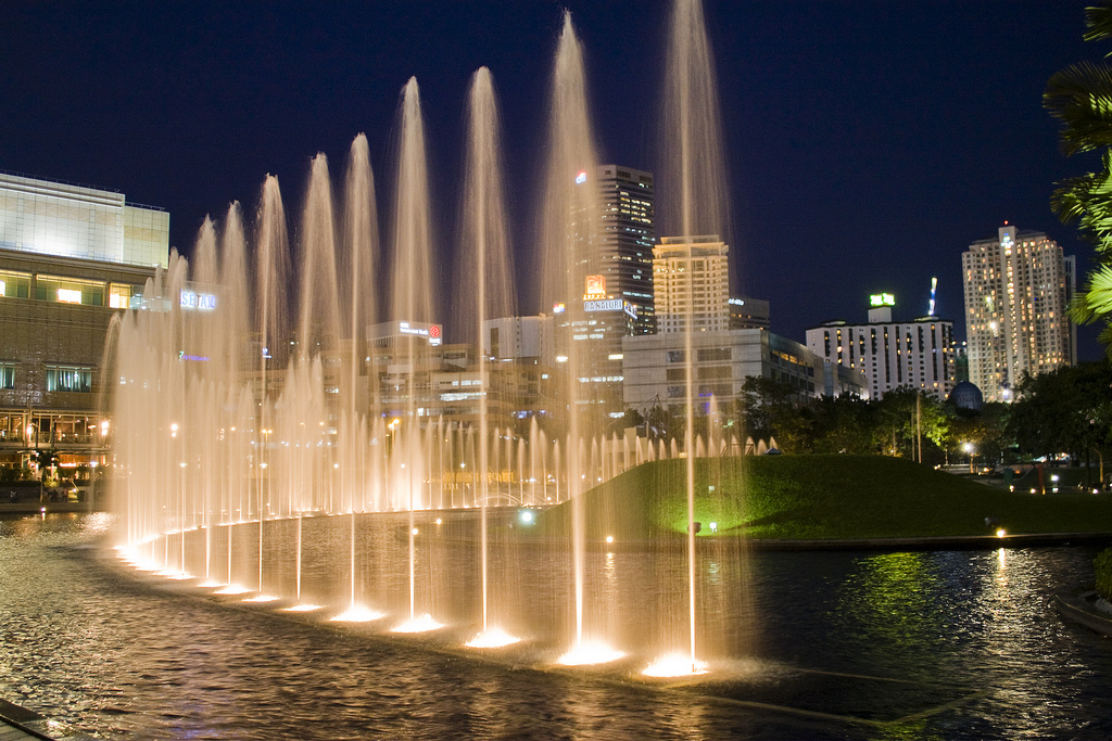 KLCC fountain by night, Kuala Lumpur, Malaysia